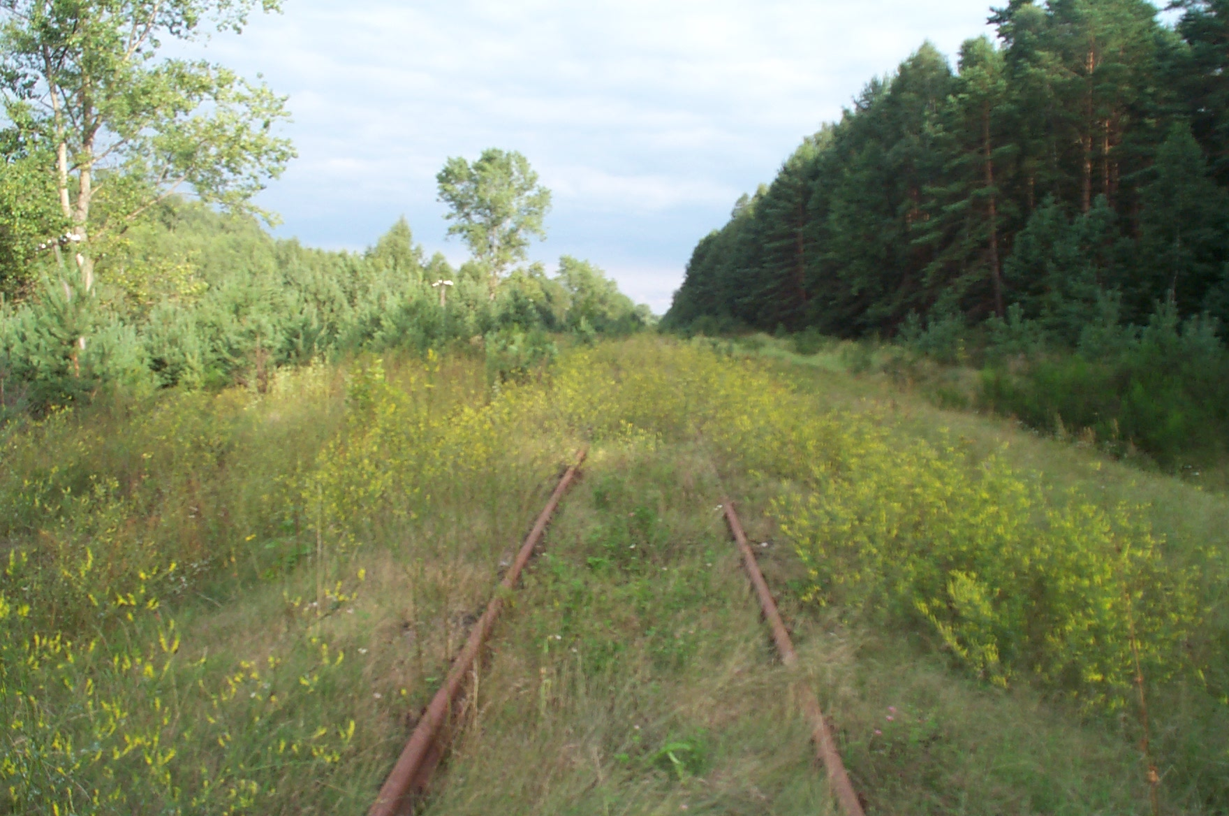 The rails at Treblinka.